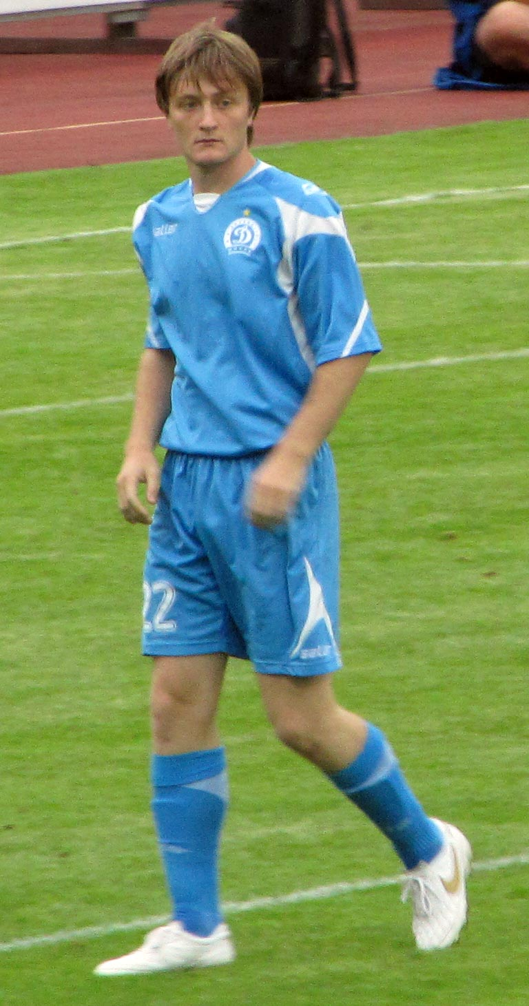 Belarusian footballer Alyaksandr Hawrushka at a match against Tromsö IL in Minsk, Belarus.